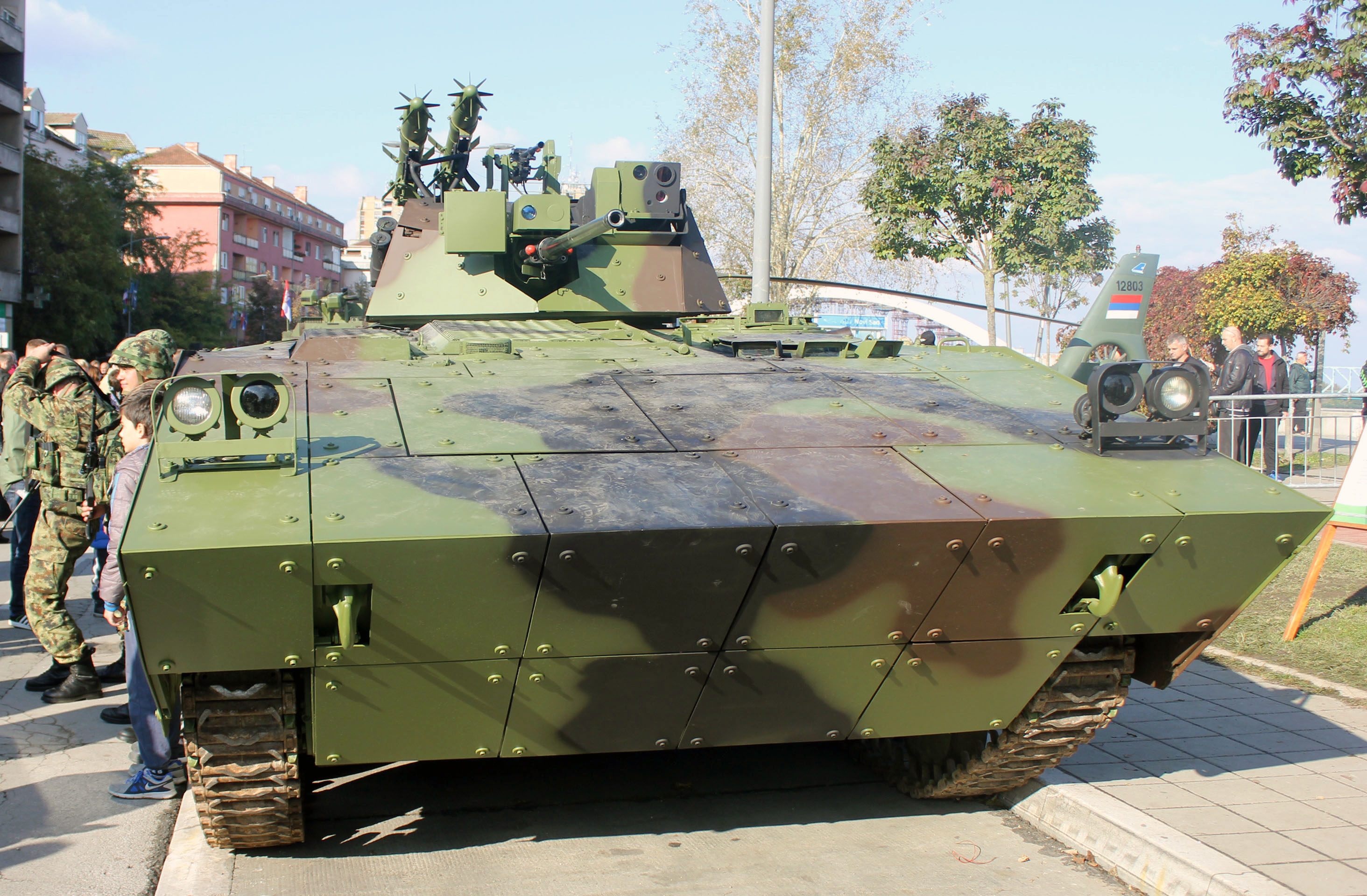 Modernized infantry fighting vehicle BVP M-80A on display at Novi Sad after WW2 liberation parade.